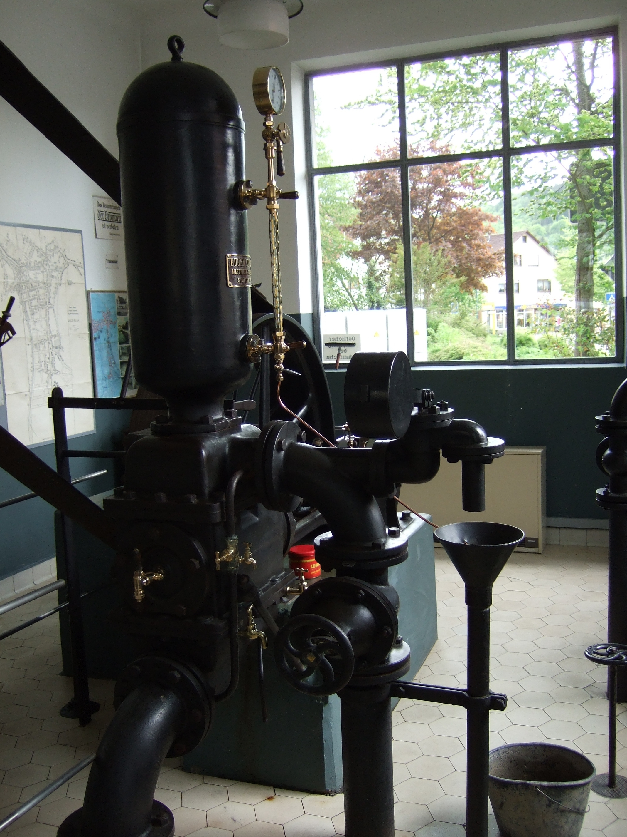 Historical water pump station Onstmettingen